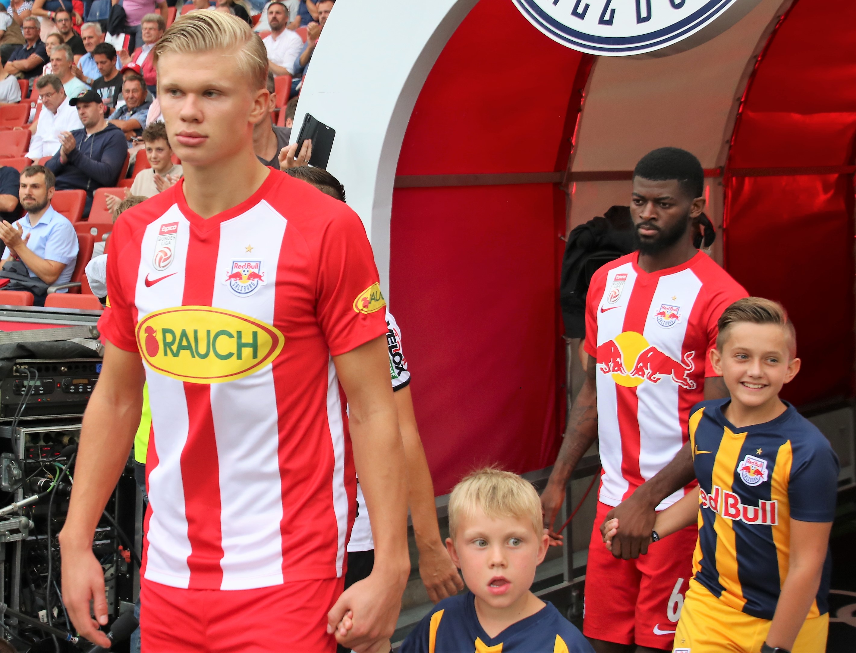 League match 3rd round Austrian Bundesliga